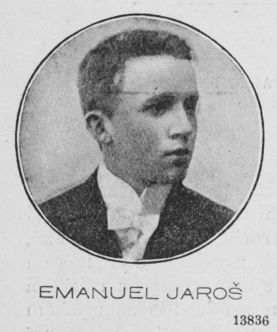 Portrait of Emanuel Jaroš (1882-1959), Czech composer